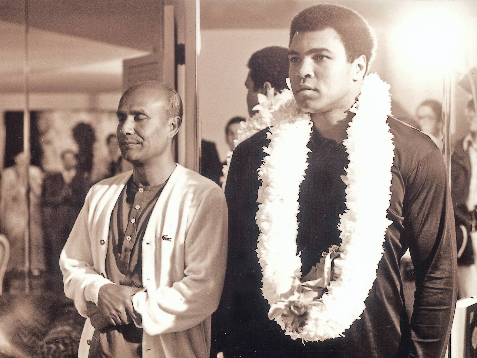 Muhammad Ali and Sri Chinmoy.